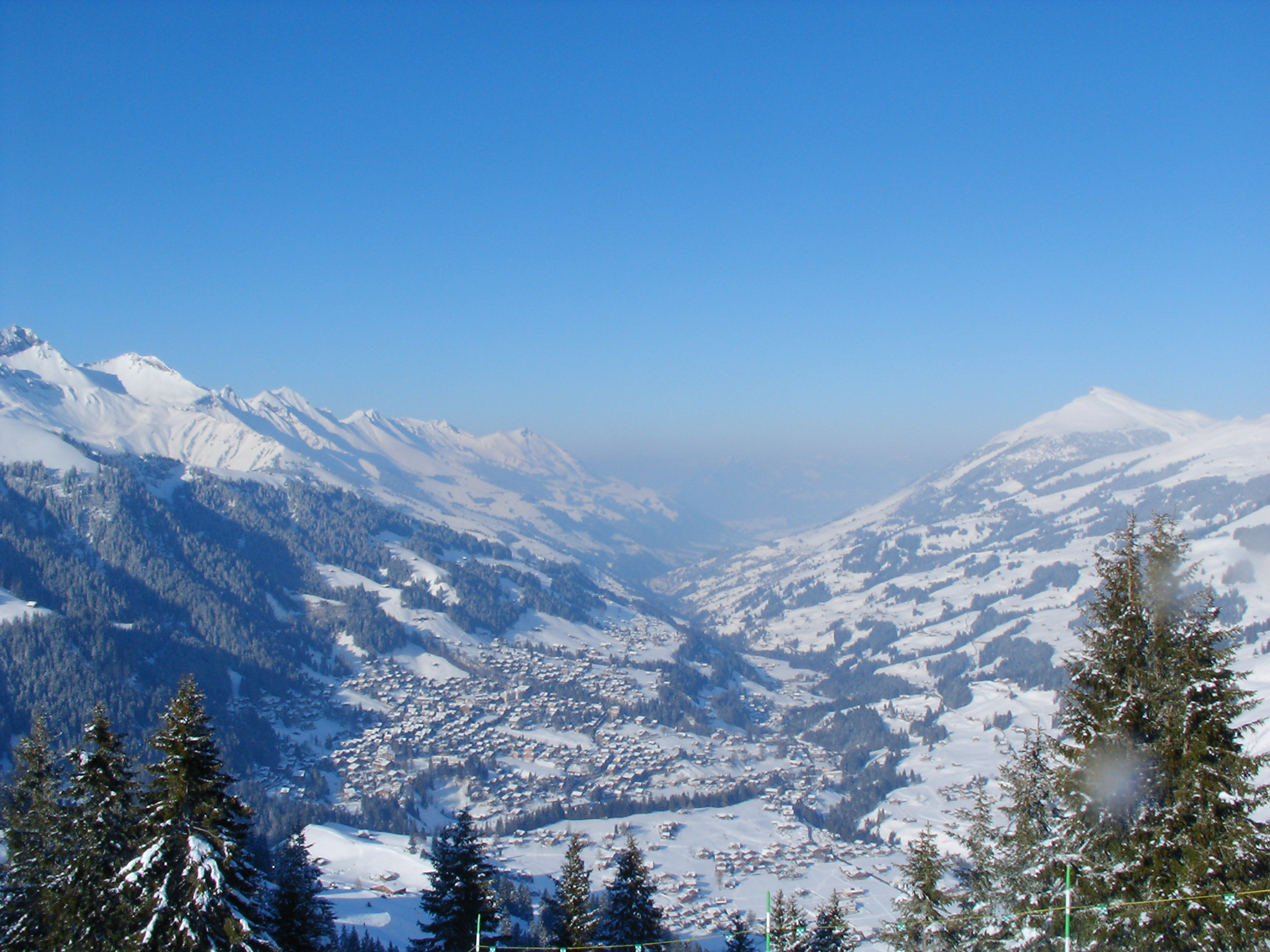 Summary Firas Arab, Silver Award, Adelboden 2006 Licensing 20:32, 21 March 2006 Firasco 2048x1536 (991887 bytes) (Firas Arab, Silver Award, Adelboden 2006)